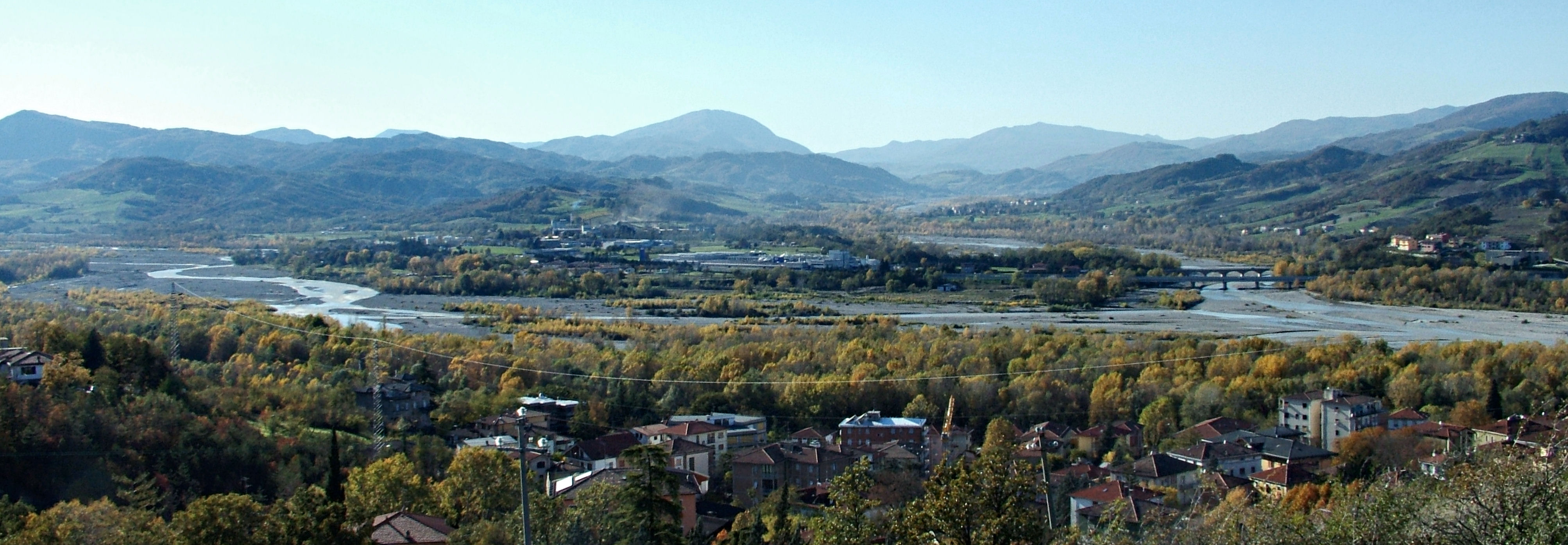 Confluence of Ceno river (right) into Taro river (left) at the height of the village of Rubbiano, municipality of Soligano, at the foreground the village of Fornovo di Taro, province of Parma, Italy.